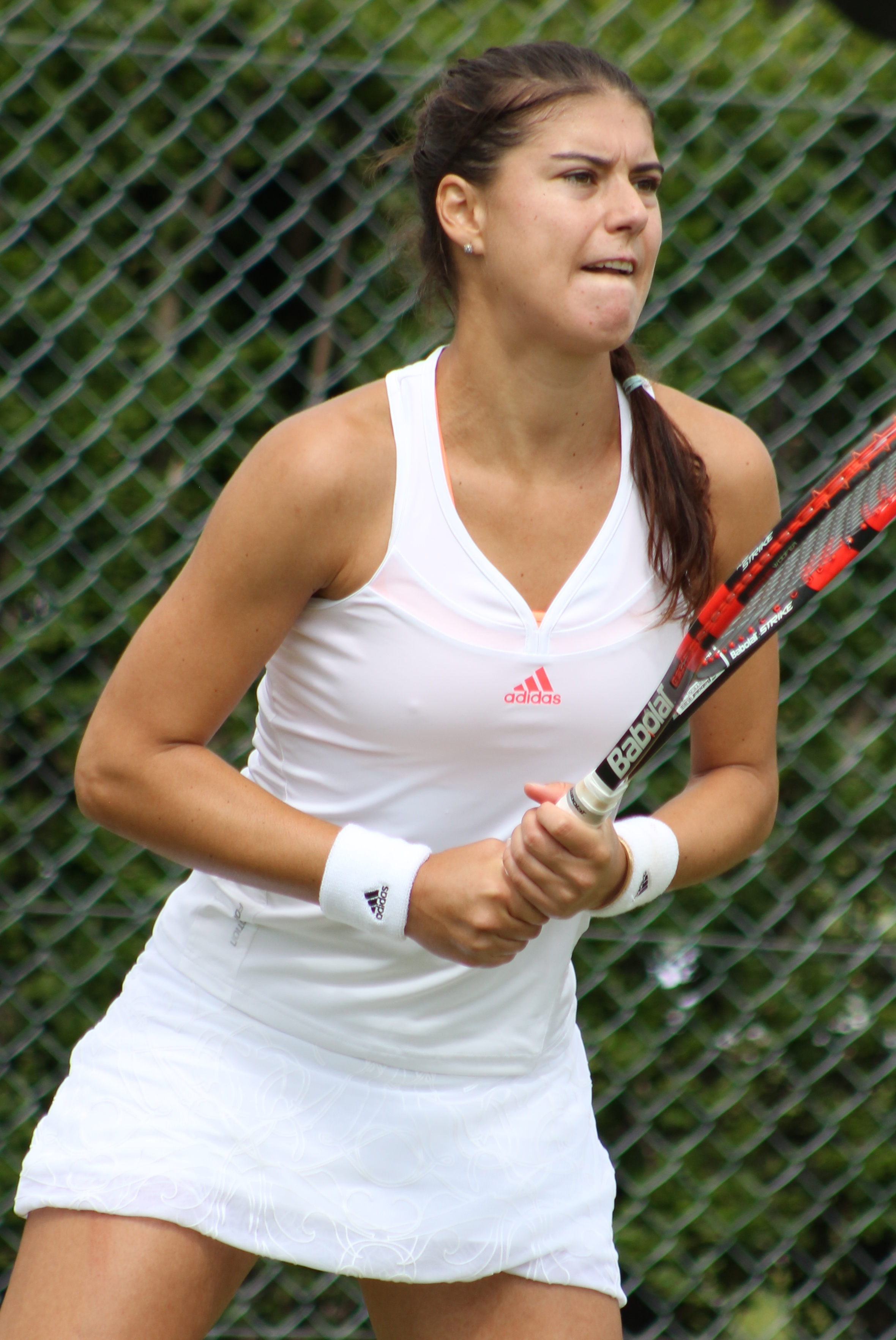 Cirstea WMQ15 (11)